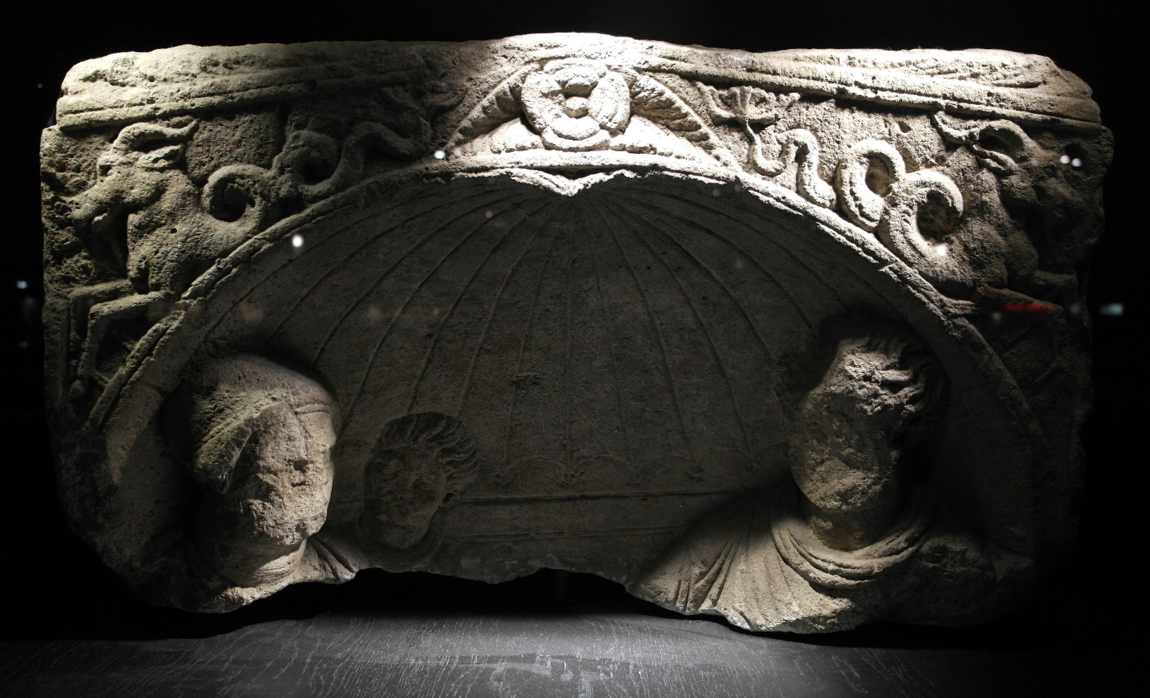 Ancient Roman relief from a 2nd century AD grave monument representing a married couple having their last supper (dodenmaal) before voyaging to the underworld. The relief is part of a window display in a public café on Plein 1992. Collection of Centre Céramique, Maastricht, the Netherlands.